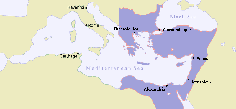 Map showing extent of Koine Greek in the Byzantine Empire.